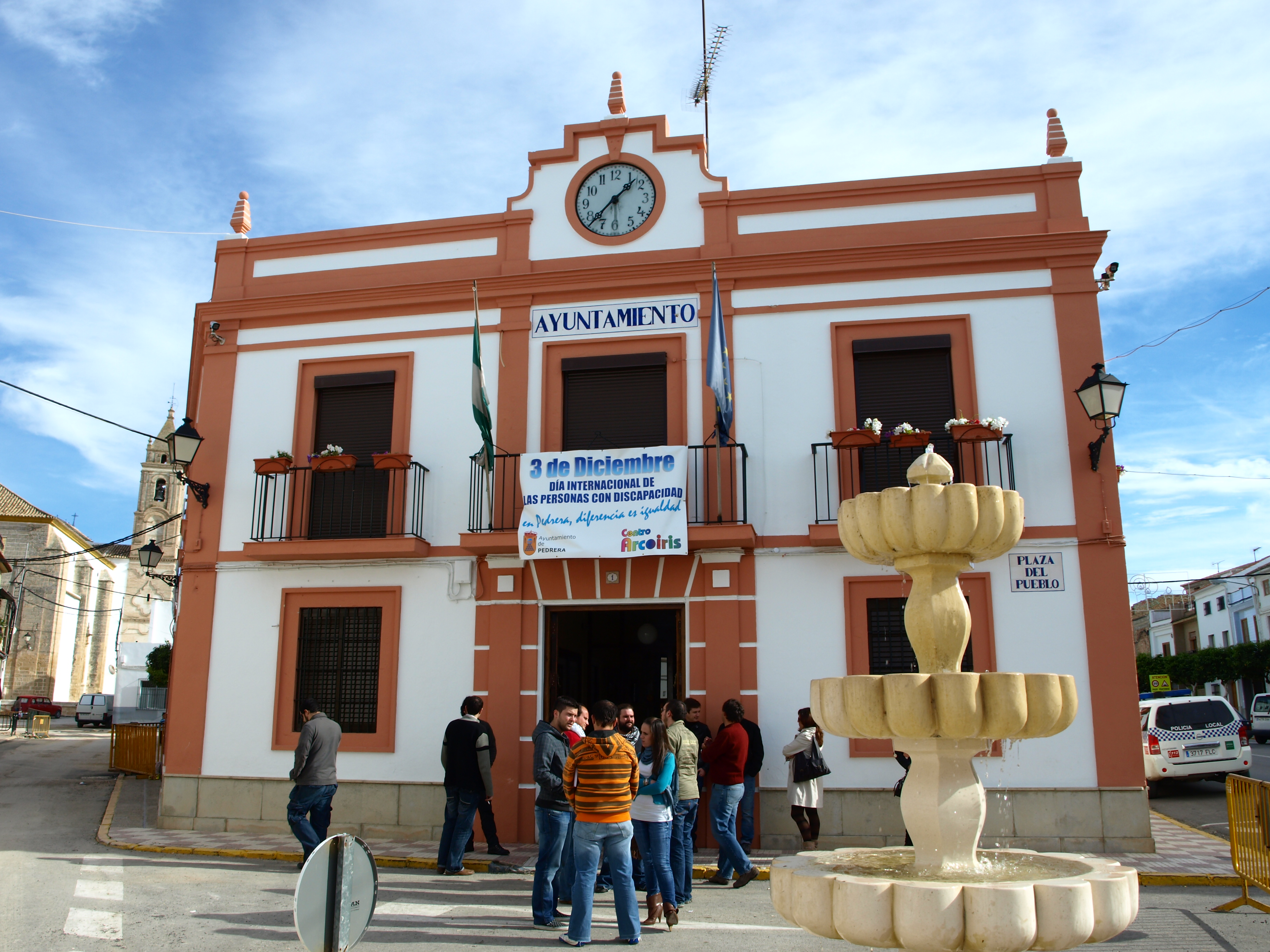 Town hall of Pedrera